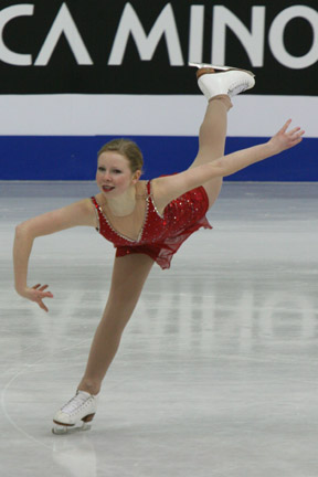 Rachael Flatt performs a forward inside spiral as part of her spiral sequence during her short program at the 2008 World Junior Figure Skating Championships